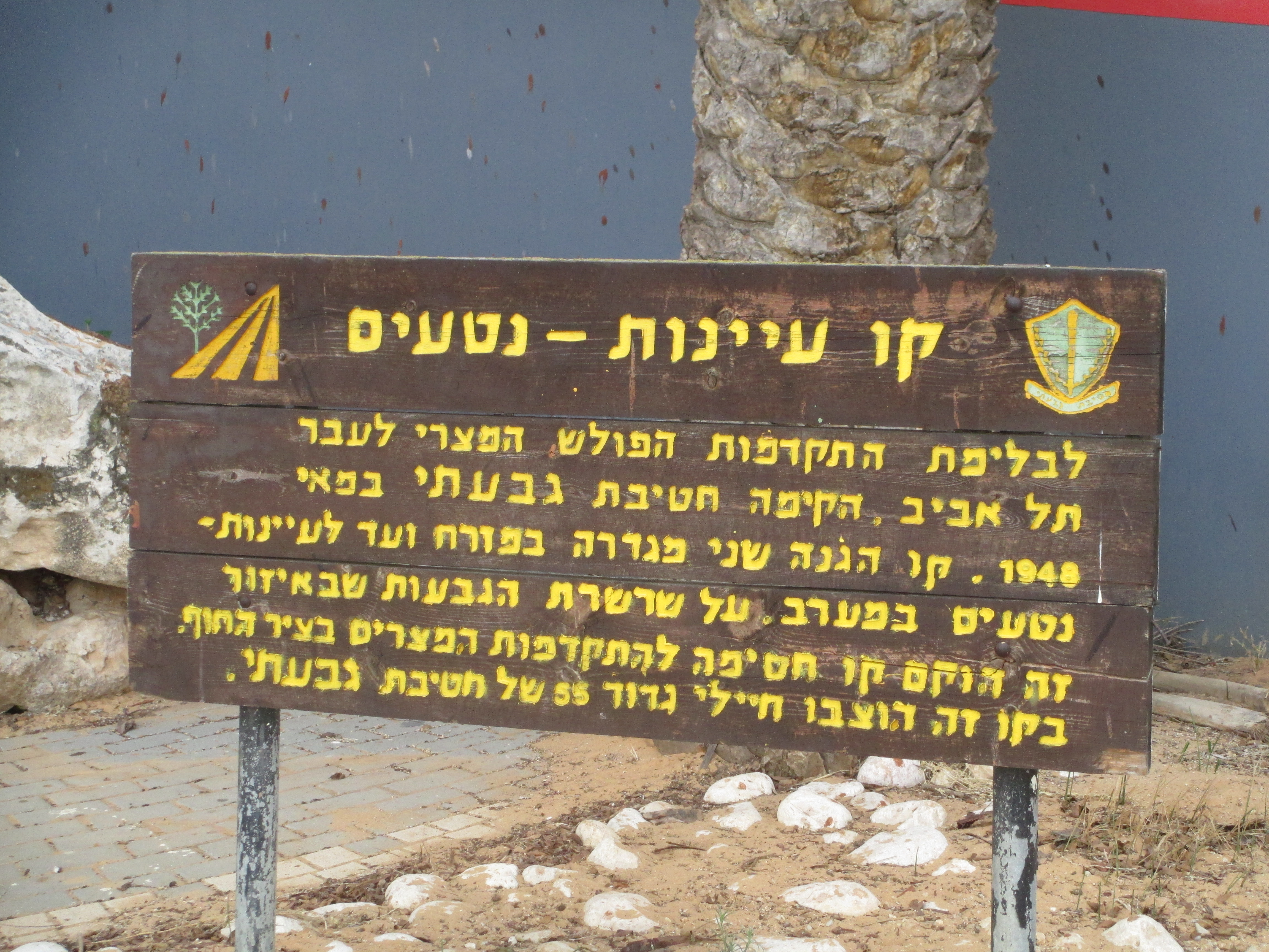 Ayanot School